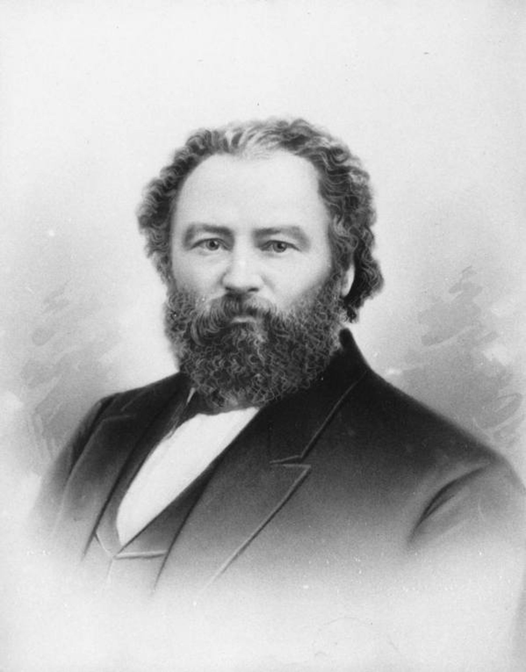 Max Strobel was the mayor of Anaheim, California from 1870 to 1871